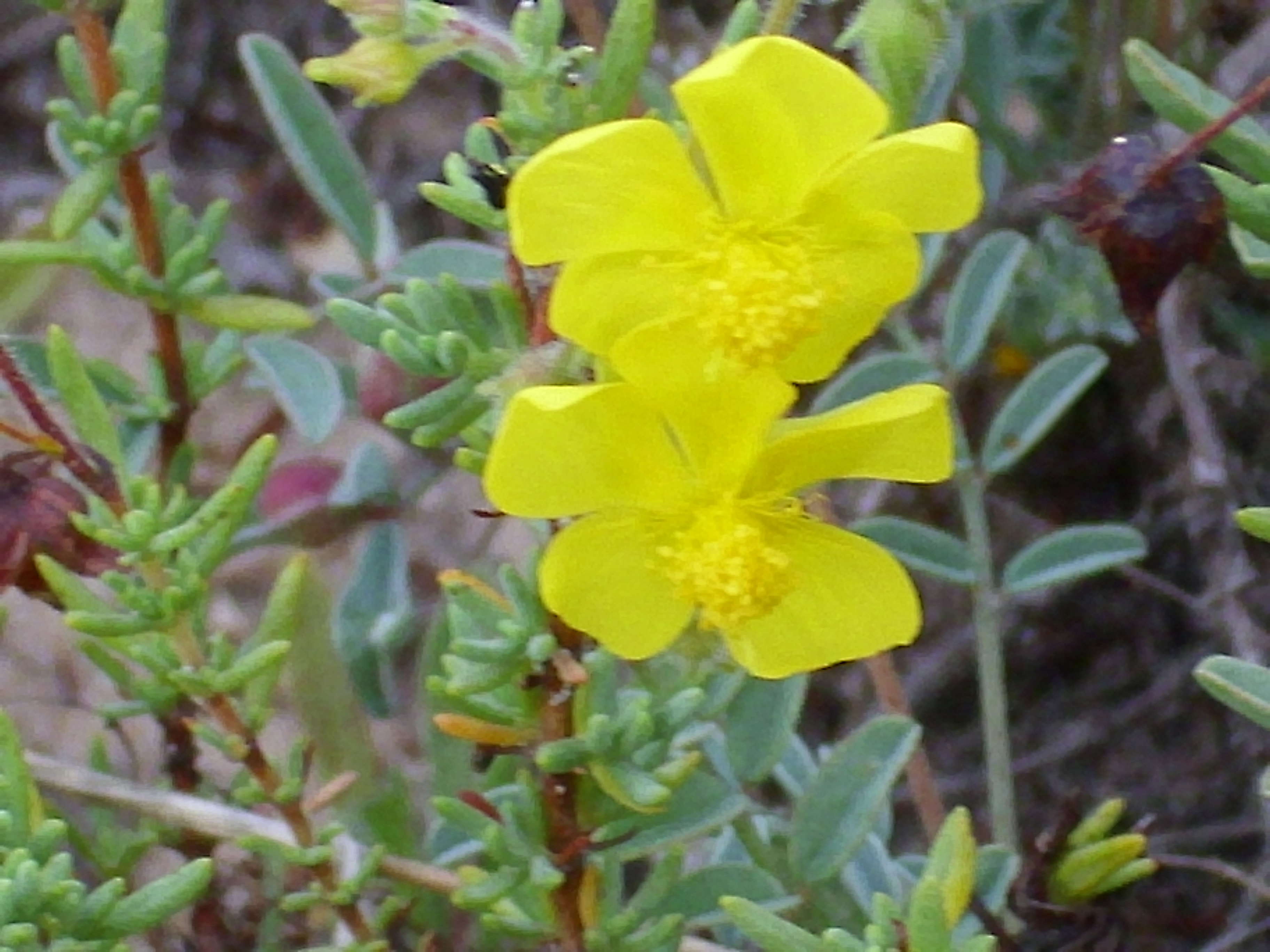 Fumana ericoides close up, La Mata, Torrevieja, Alicante, Spain.